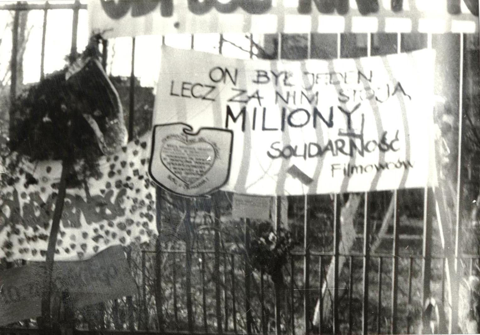 Funeral of Jerzy Popiełuszko at Saint Stanislaus Kostka Church in Warsaw